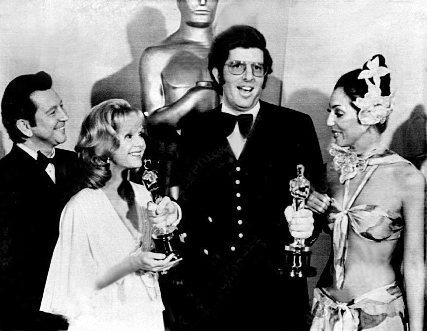 Press photo of Marvin Hamlisch receiving three Academy Awards. With him are Donald O'Connor, Debbie Reynolds and Cher Bono.